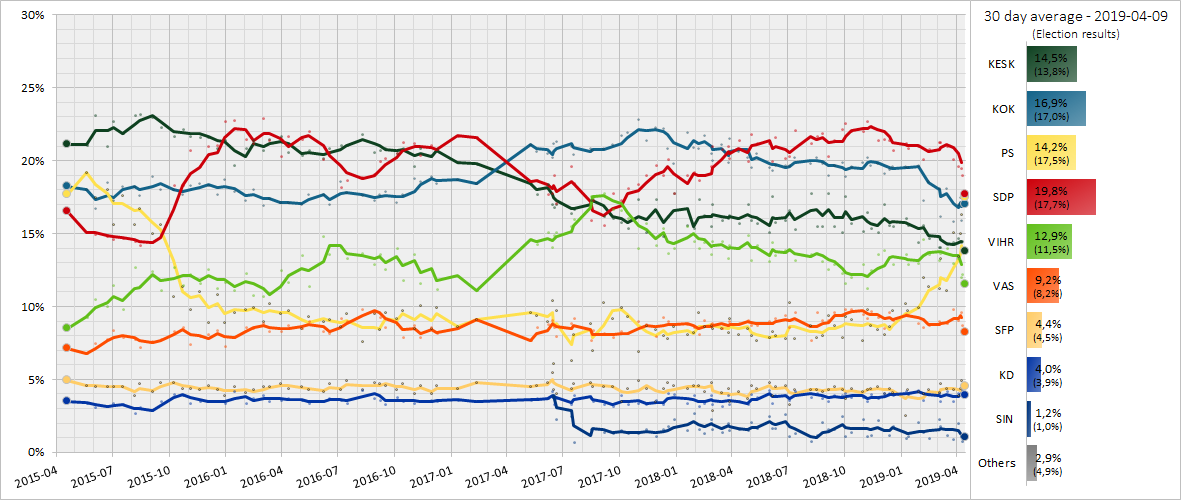 Graph showing a 5 poll average trendline of the finnish opinion polls towards the general election in 2019